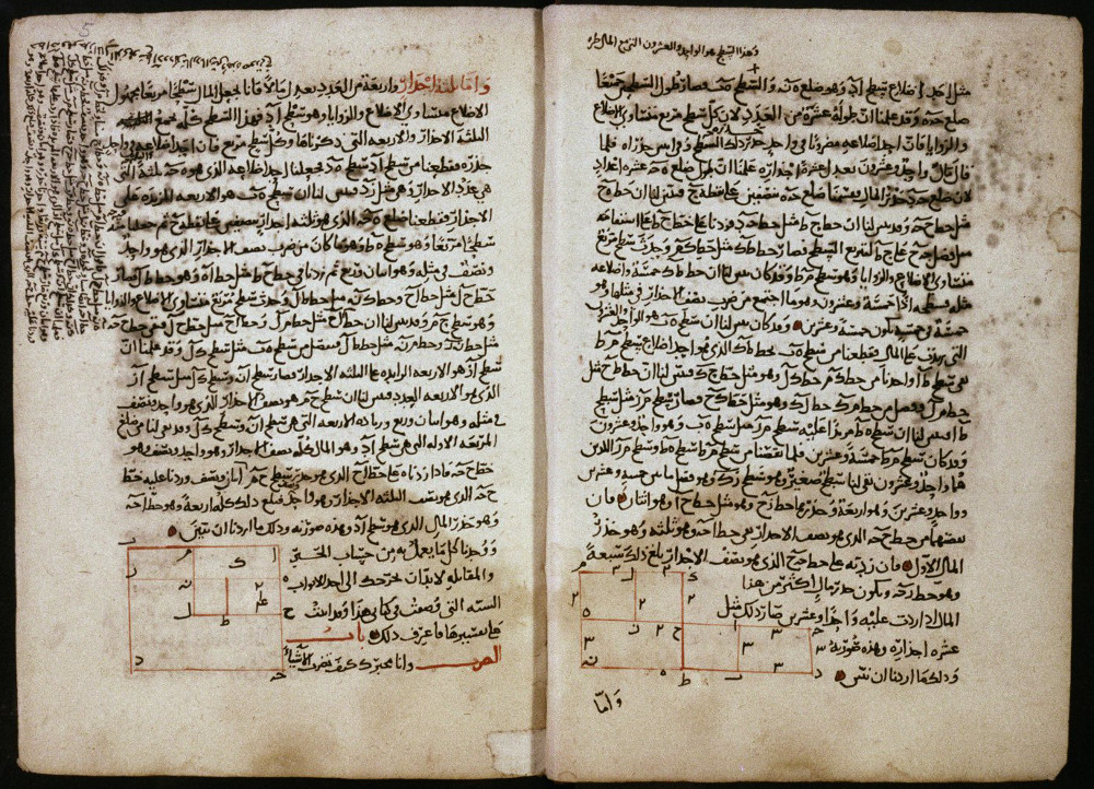 Text pages from Algebra manuscript with geometrical solutions to two quadratic equations.